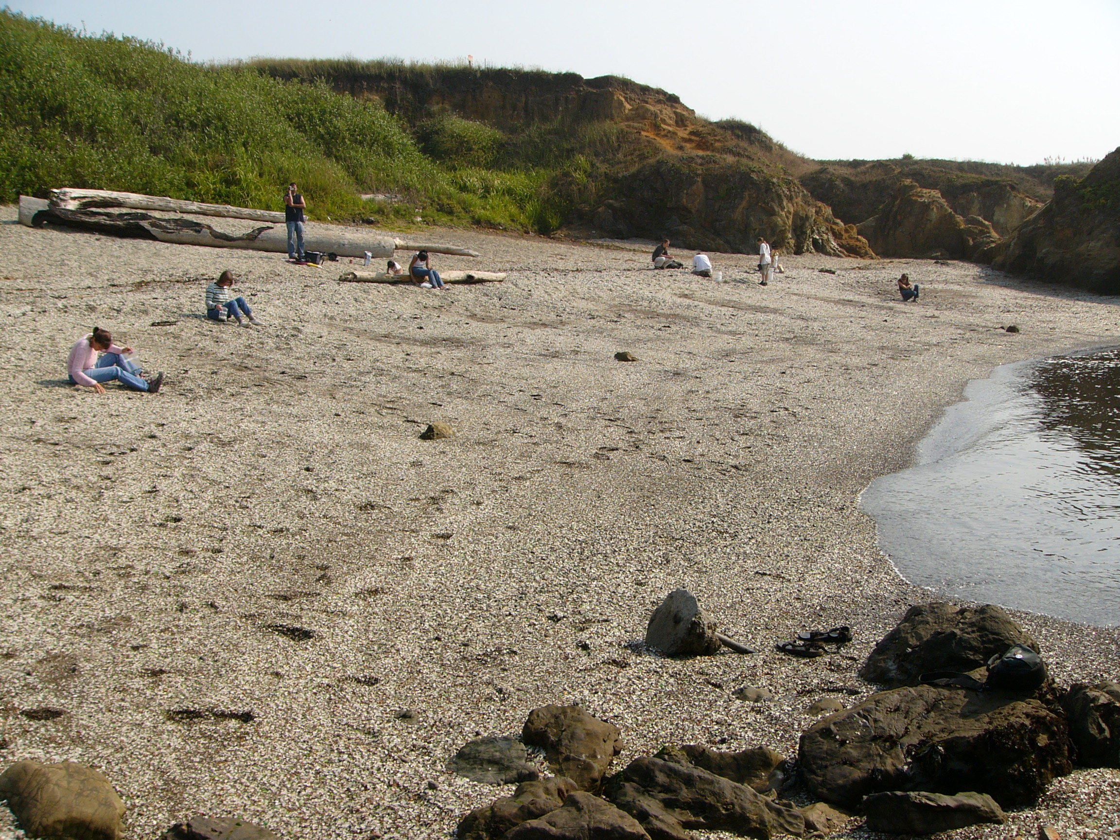 The Glass beach in Fort Bragg, California.